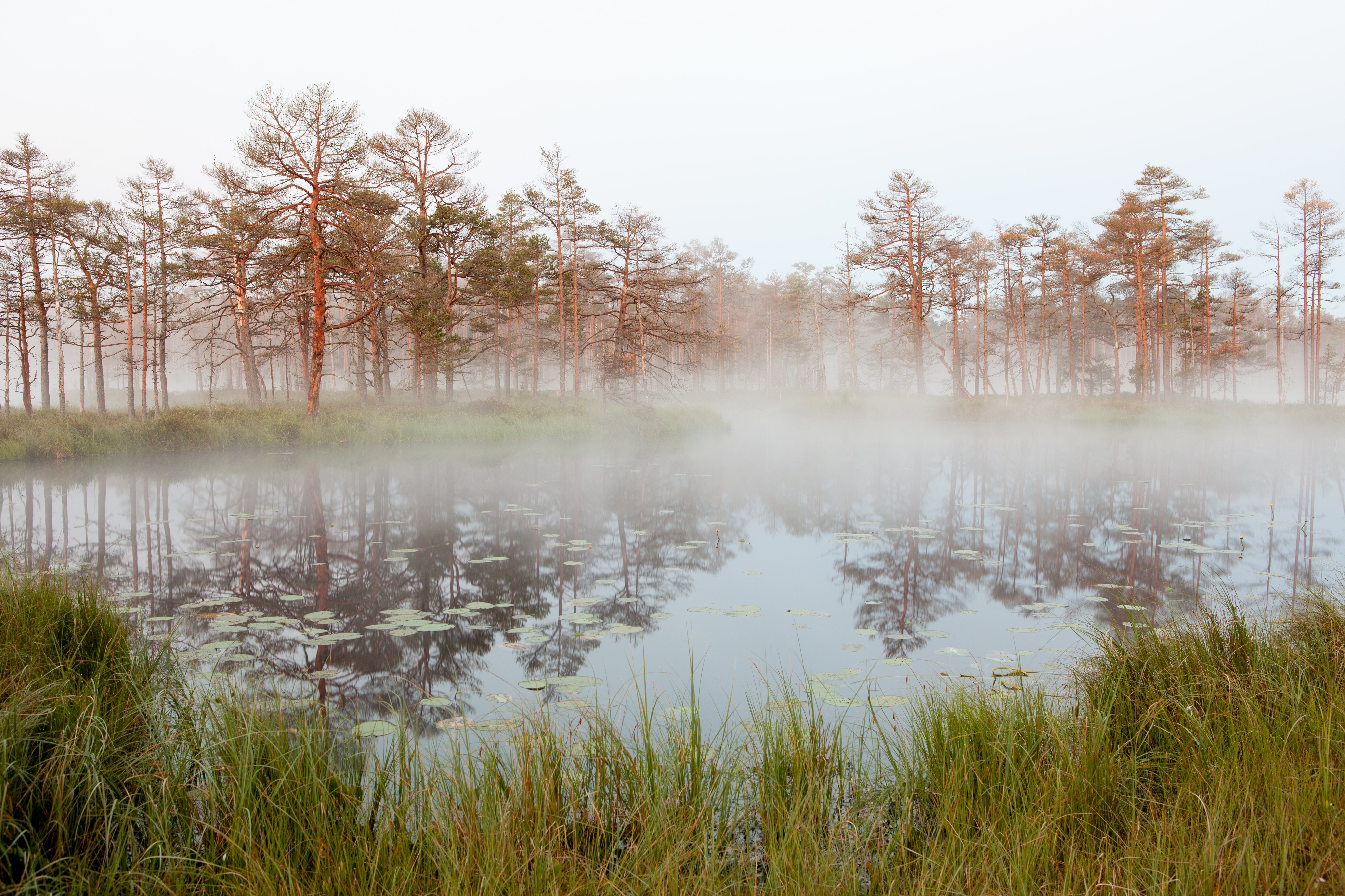 Skaista lake (Tīreļi reservoir). Shallow brownwater swamp lake in the Cenas tīrelis nature reserve.